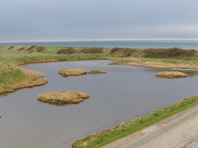 Wexford Wildfowl reserve Wexford slobs and harbour attract thousands of water fowl, particularly Greenland White-fronted Geese. View from tower of visitor centre.